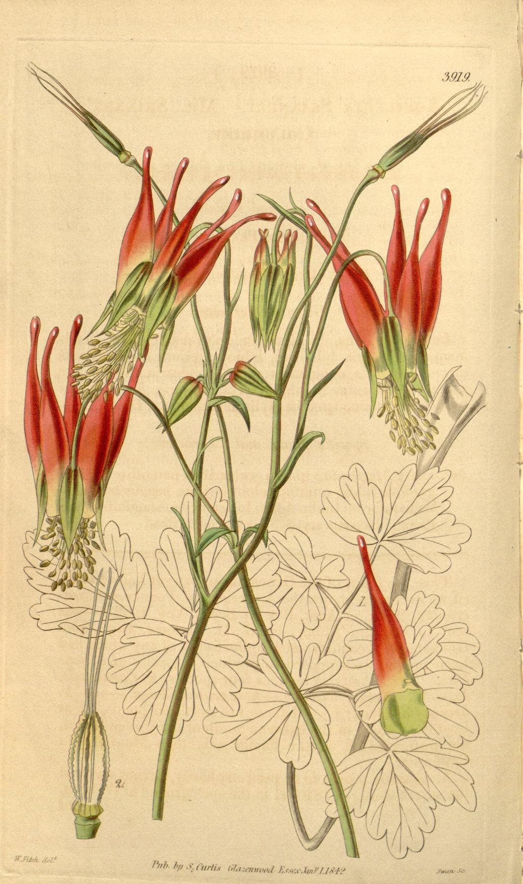 Illustration of Aquilegia skinneri